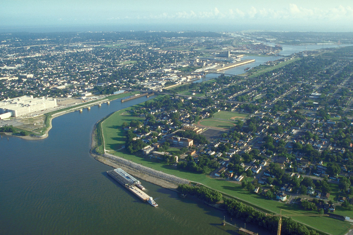 The Inner Harbor Navigation Canal (IHNC), commonly known as the Industrial Canal, in New Orleans, Louisiana, USA. The canal provides a navigation channel between the Mississippi River, Lake Pontchartrain, and the Gulf Intracoastal Waterway. In this photograph, the Mississippi River is at lower left. The Industrial Canal branches off to the right. At top right the Canal turns left to enter Lake Pontchartrain in the far distance. The Intracoastal Waterway branches off to the right (east). View is to the northwest. Total length of the Canal is about 5.25 miles (8.5 km). Lower 9th Ward neighborhood is to the right of the Canal, with campus of Holy Cross High School clearly seen. To the left of the Canal is the Bywater neighborhood. The St. Claude Bridge over the canal is the closest; further back is the Claiborne Avenue Bridge, and the old Florida Avenue Bridge is visible as well. The Florida Avenue wharf complex is on the left (up river) side of the canal.